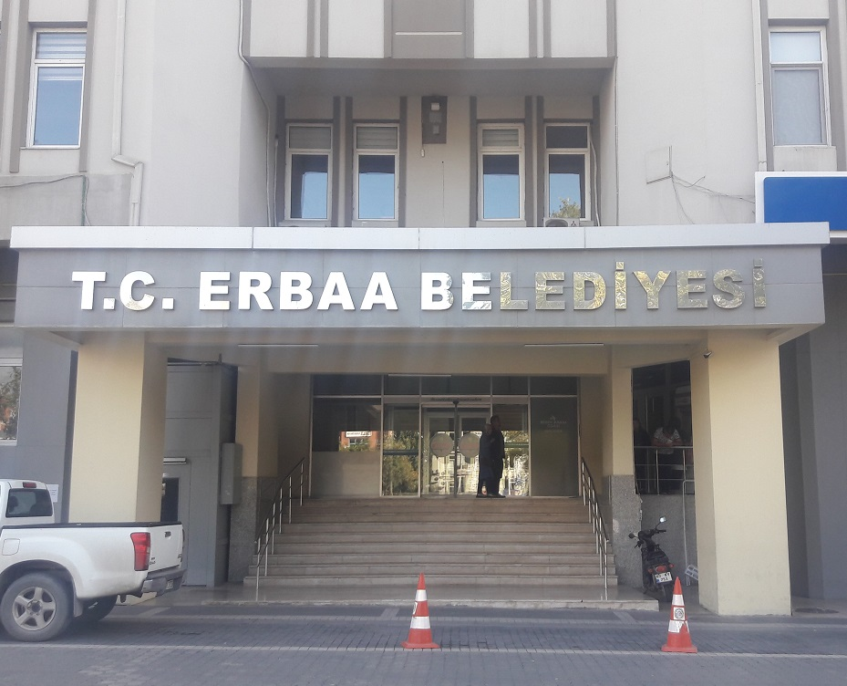 Entrance of the Erbaa Municipality.